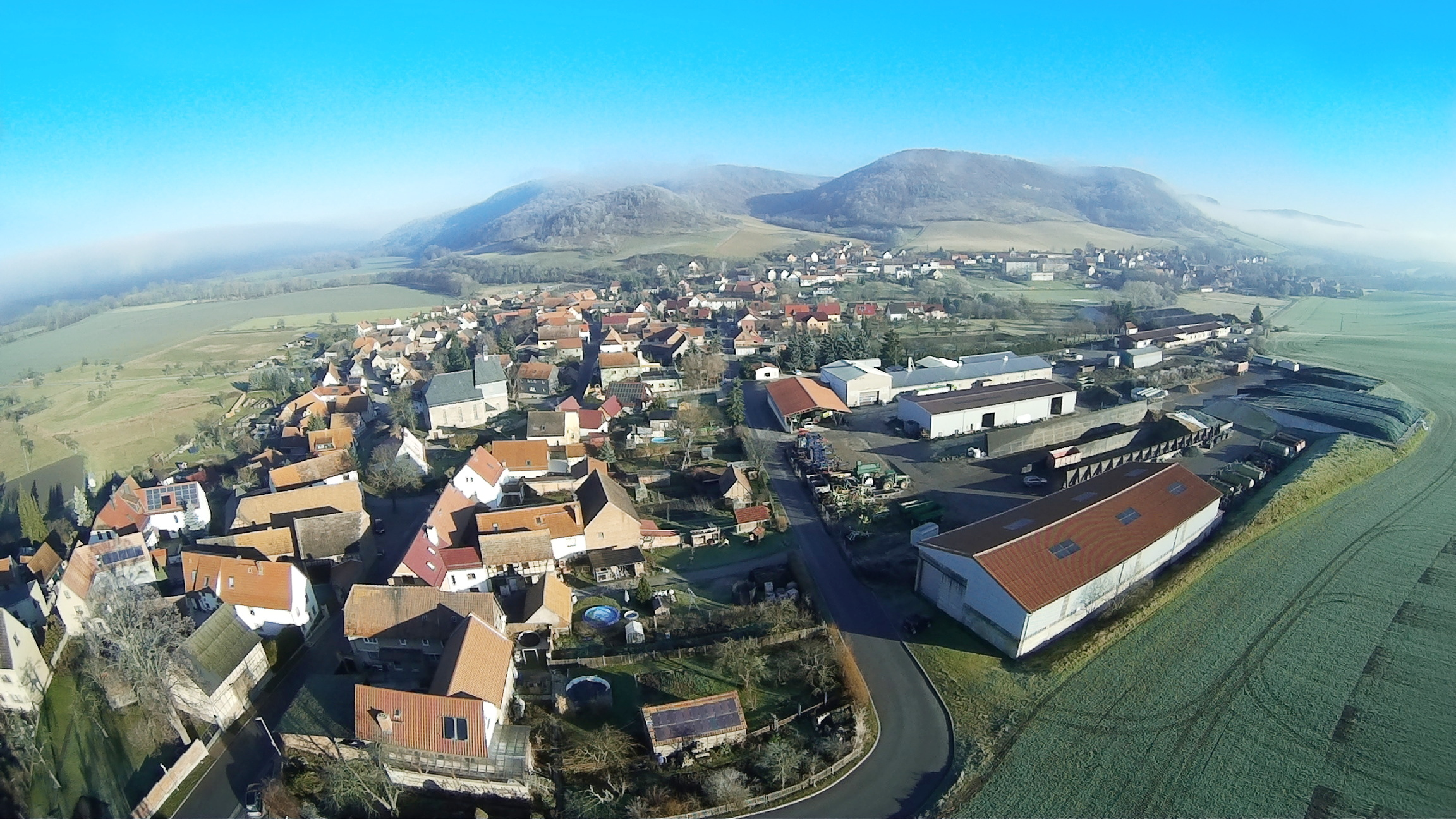 Golmsdorf village